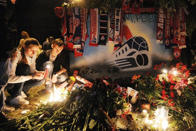 Lighting candles amongst a bed of flowers at the Arena-2000 stadium in Yaroslavl